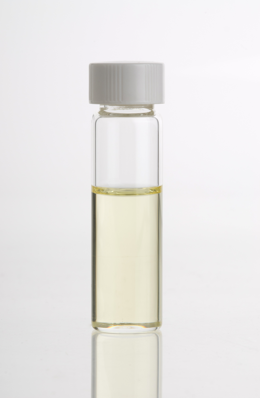 Pure Steam Distilled Lavender Essential Oil